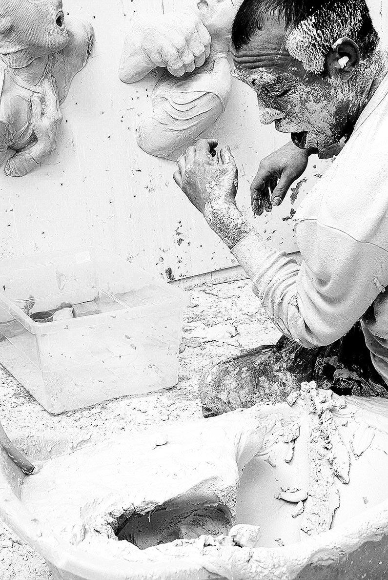 Work in process